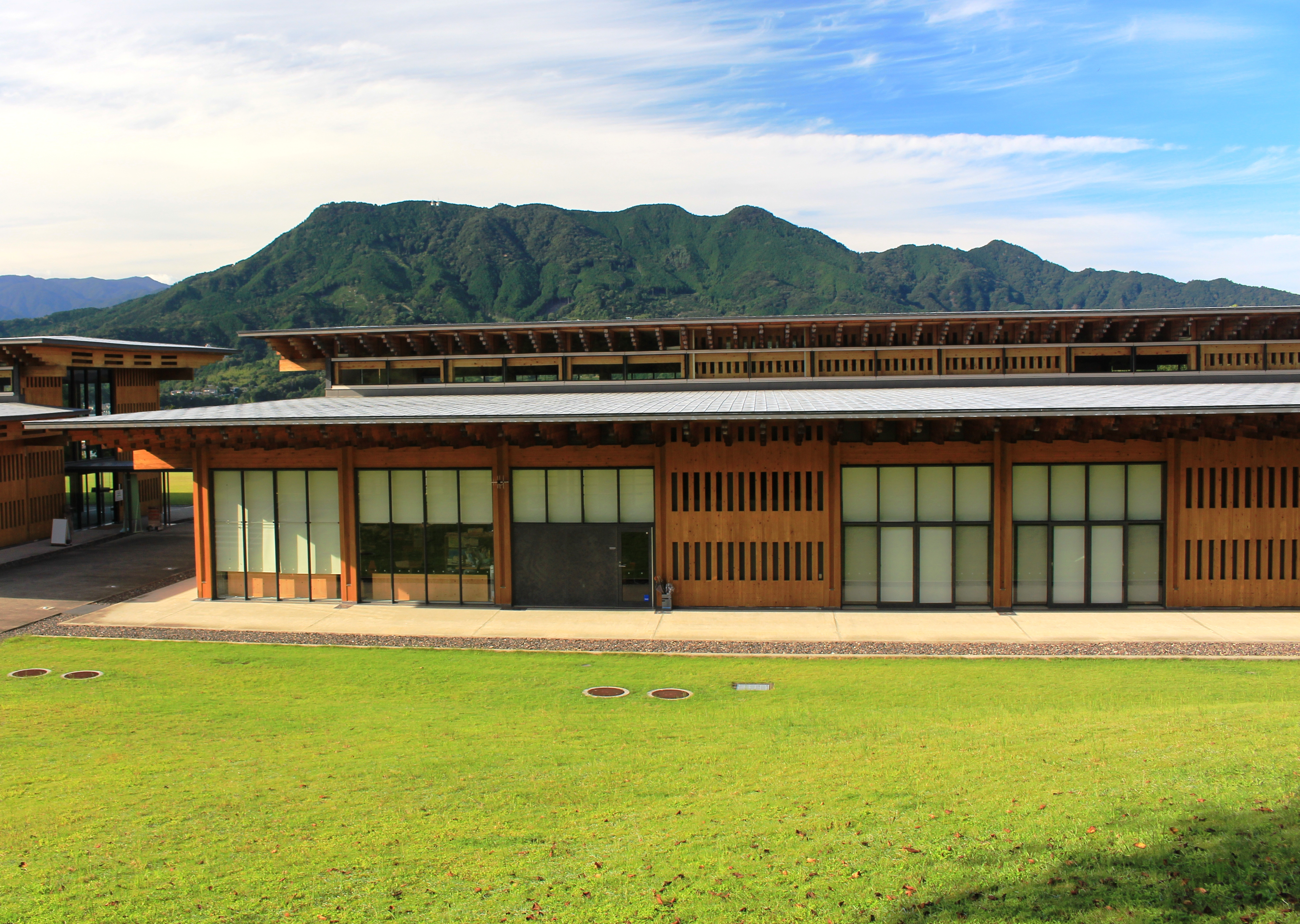 Mie Prefecture Kumano Kodo Center and Mount Tengura in Owase, Mie Prefecture, Japan.